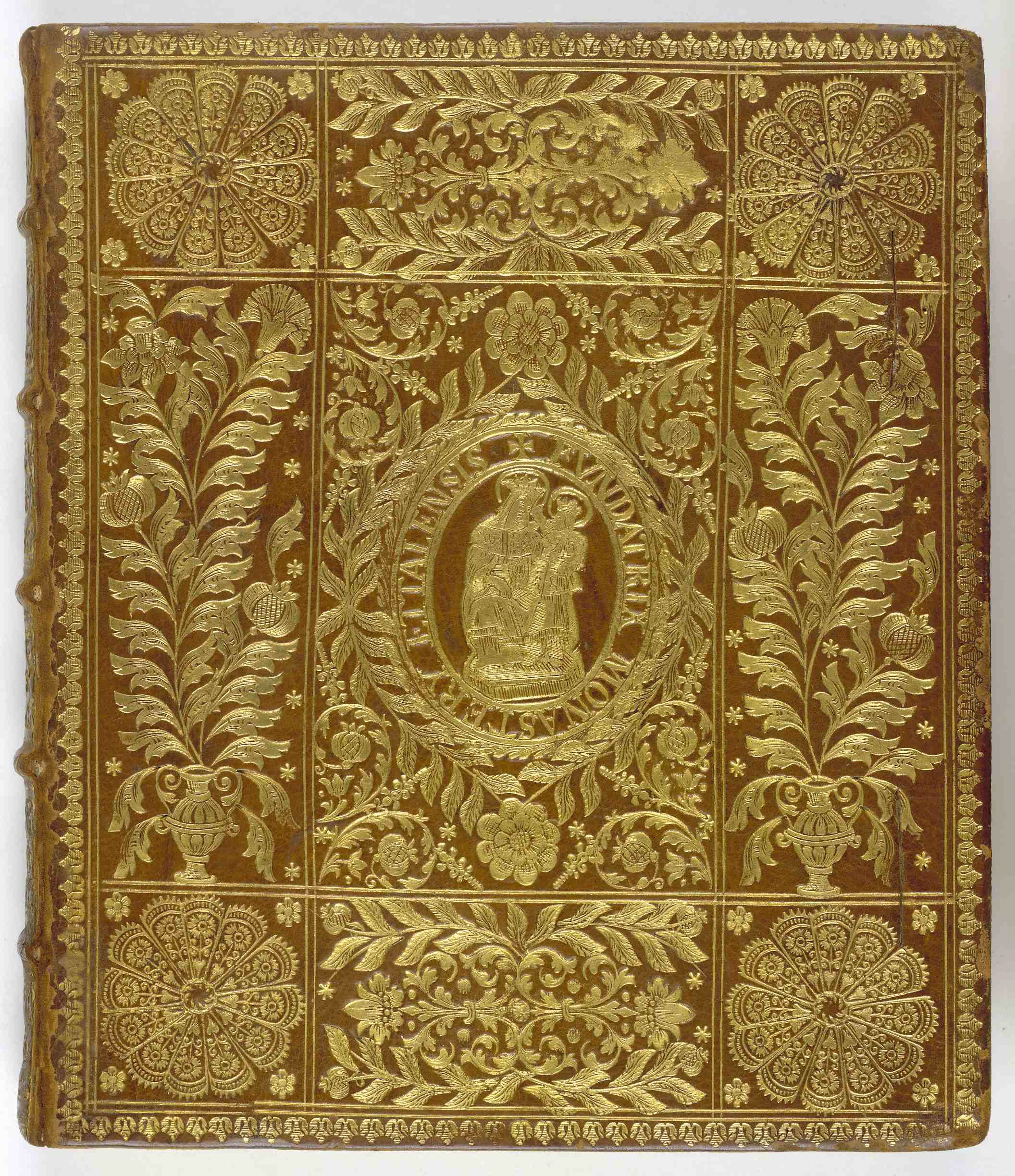 Style: Panel design; Caption: Upper cover; Colour: Brown; Edge: Unspecified